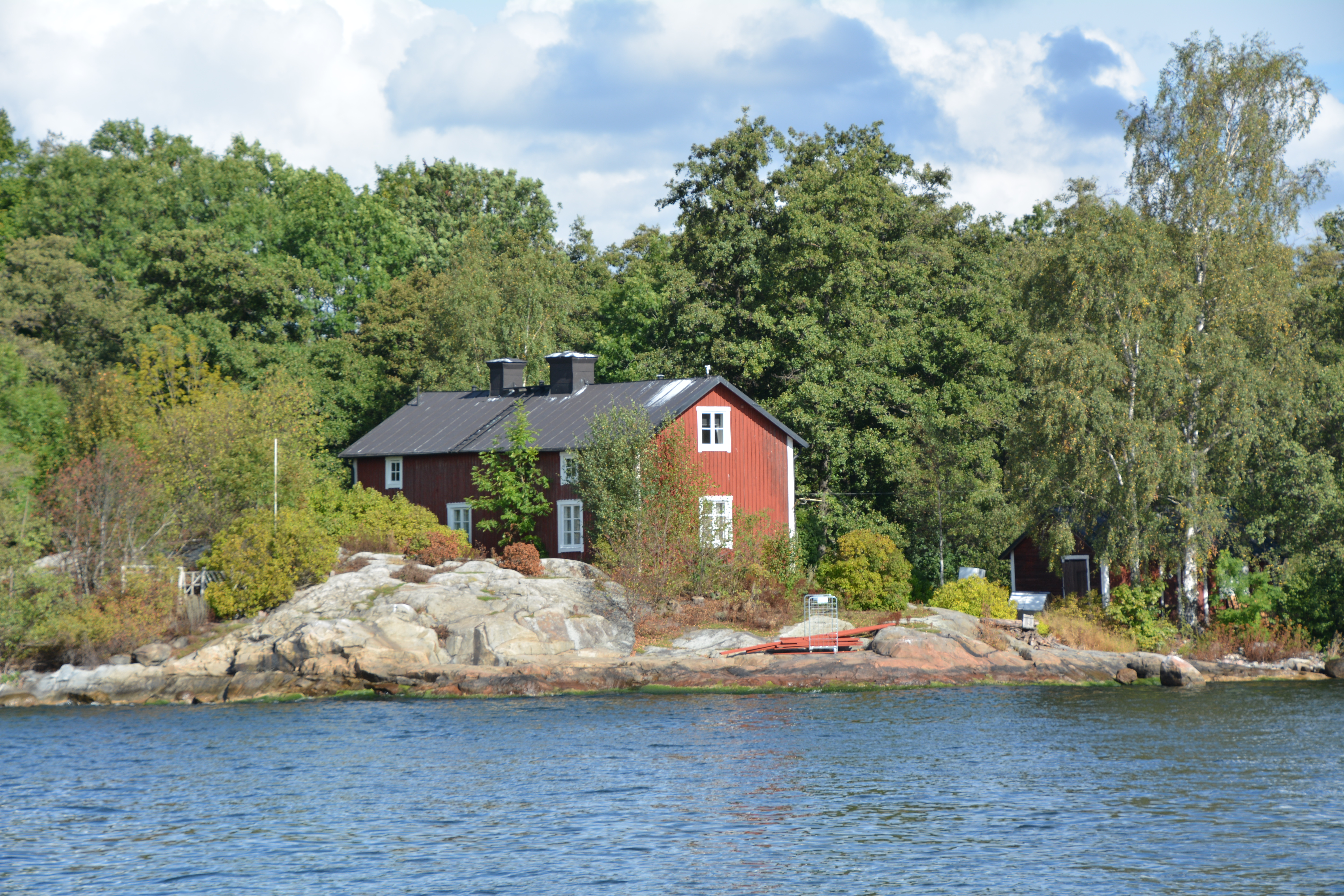 Lilla Fjäderholmen, eller Ängsholmen